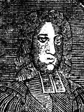 Rev. Thomas Dyke a portrait from his book.A guide to the English Tongue